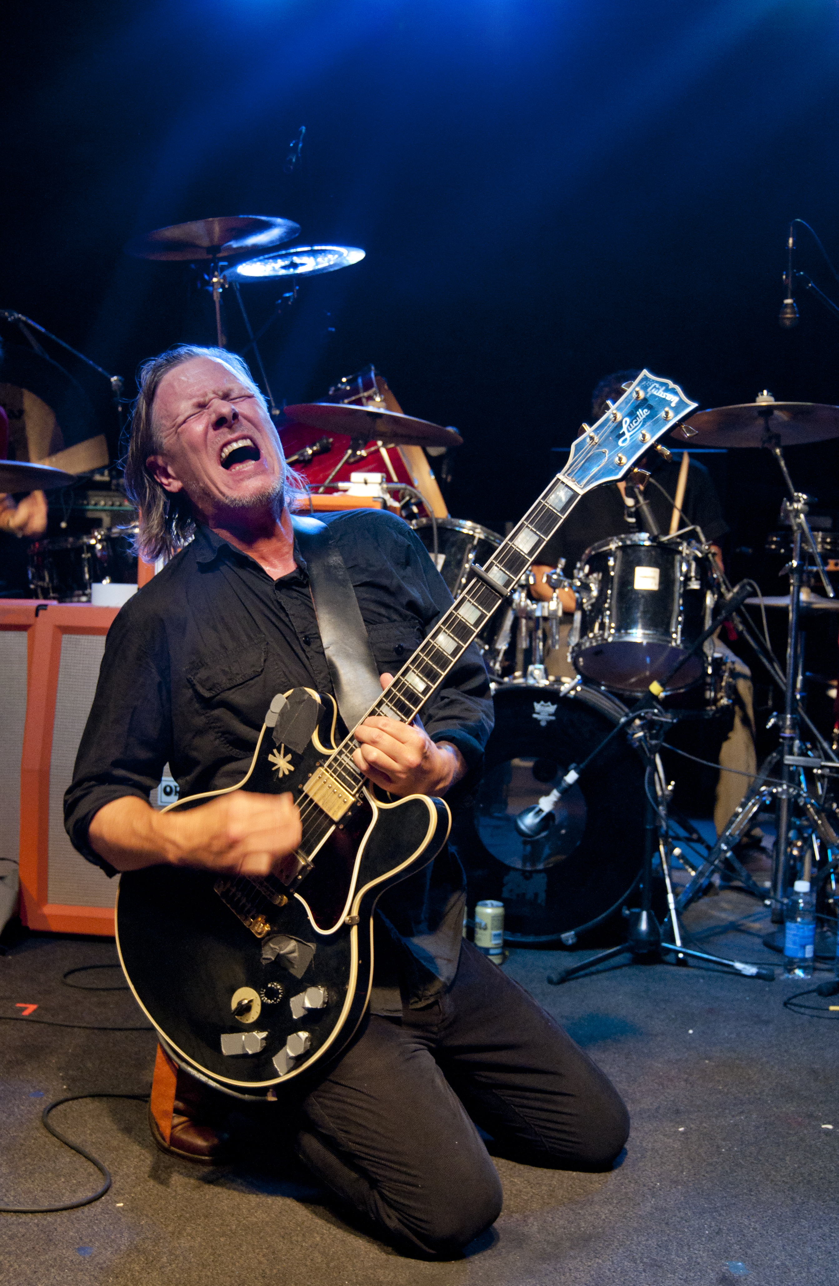 Michael Gira performing with Swans, 2012-09-19 Flickr Tags: Swans Kansas City Missouri KC MO Beaumont Club Concert Set Loud 9/19/12 September 19 Guitar Michael Gira The Seer.